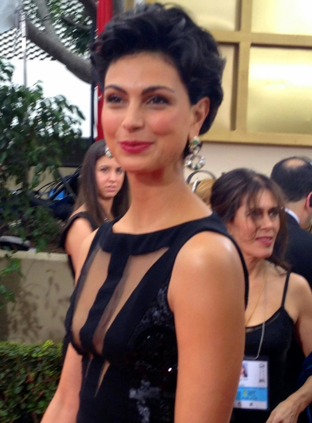 Morena Baccarin at the 69th Annual Golden Globes Awards 2012.